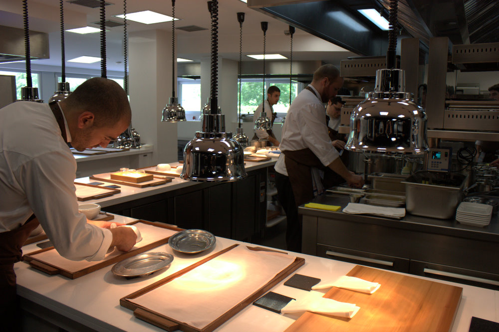 The kitchen at the Mugaritz restaurant in Spain.